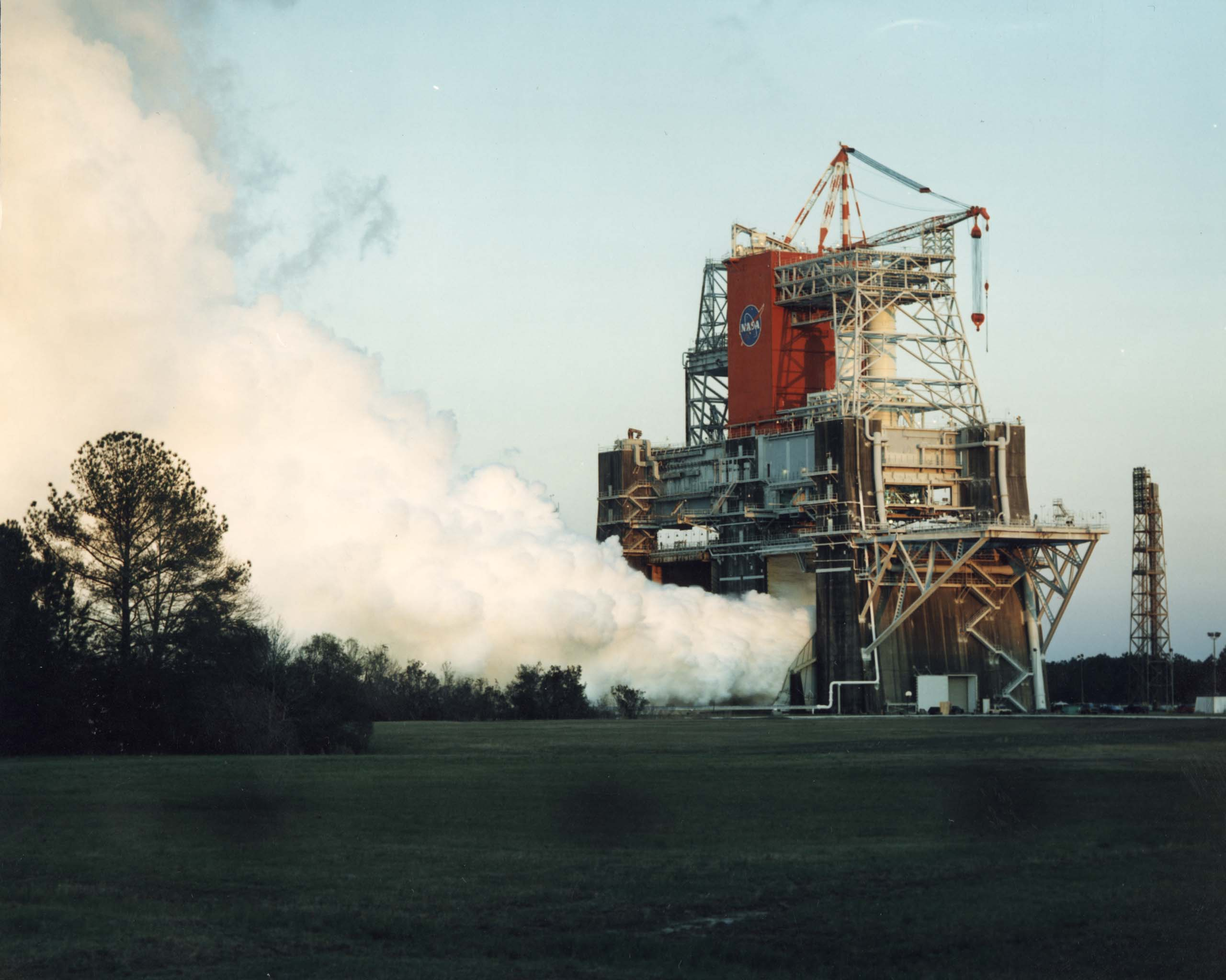 A cloud of hot steam boils out of the flame deflector at the A-1 test stand during a test firing of a Space Shuttle Main Engine in 1988 during the NASA Return to Flight program.